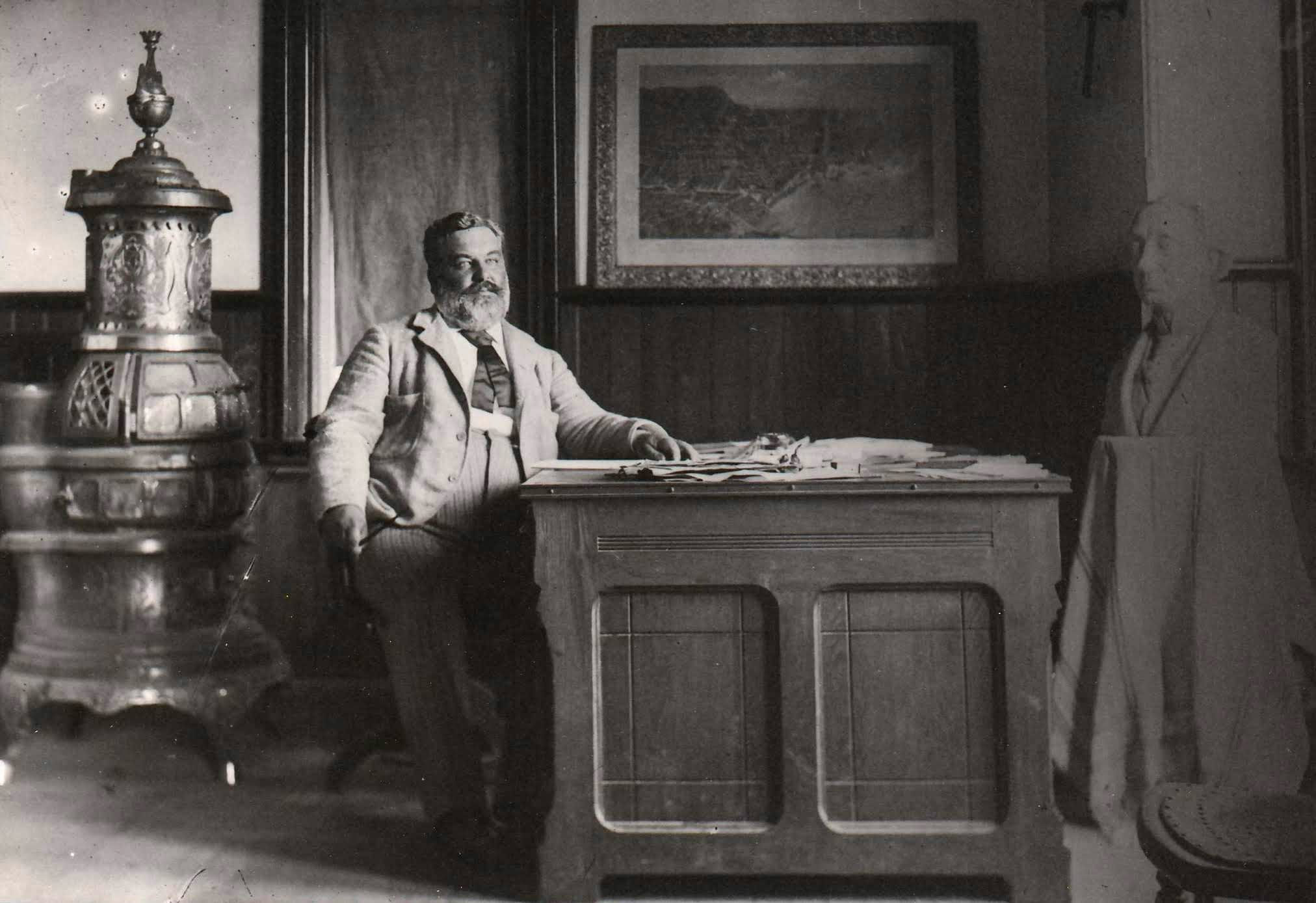 Guelph mayor Thomas Goldie at his office in Goldie's Mill. This photo is estimated to be circe 1885, five years prior to his first term in office.